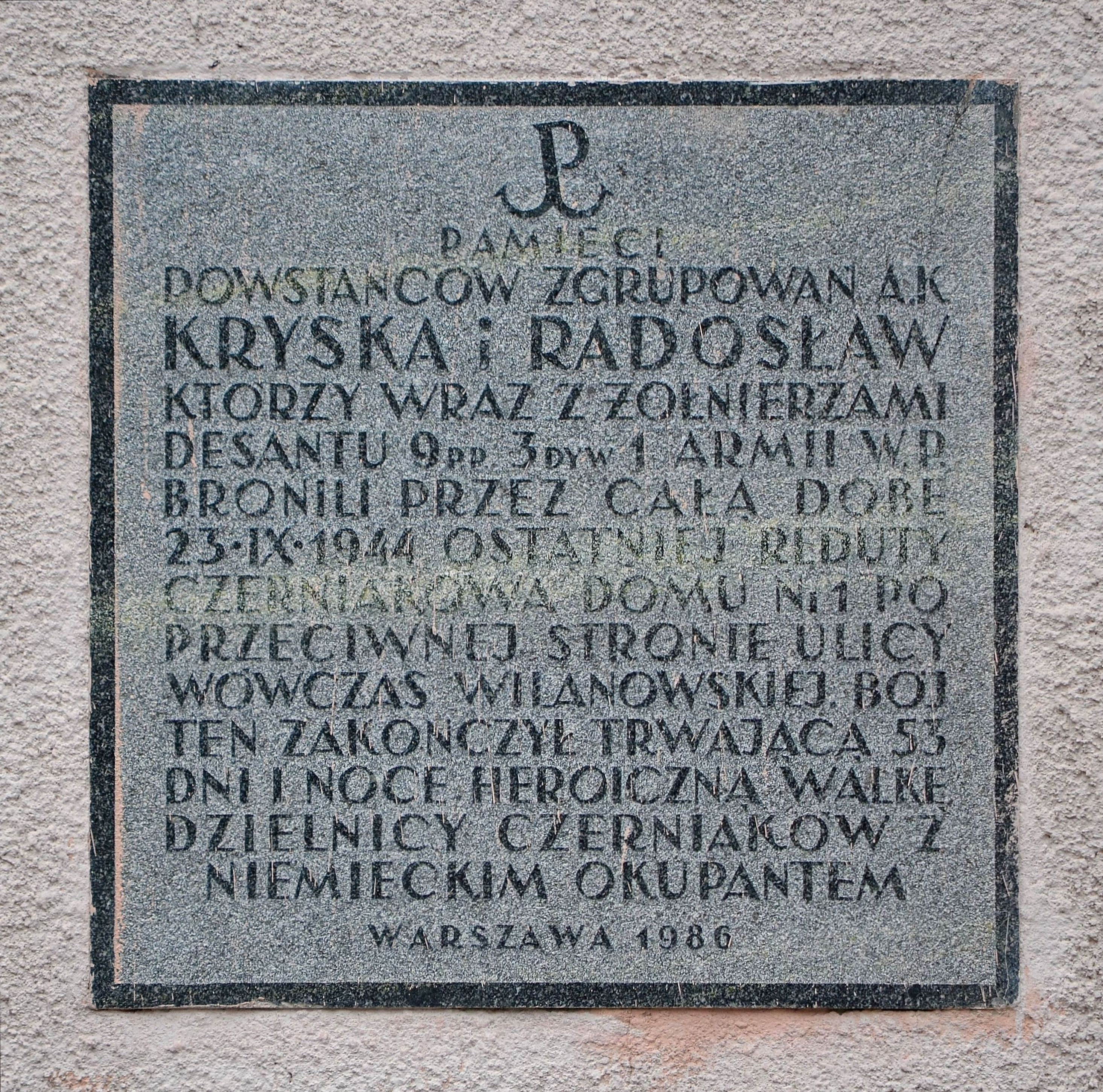 Commemorative plaque at 57 Solec Street (on Wilanowska Street side) in Warsaw